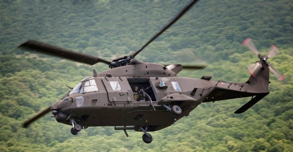 NH90 helicopter of the Italian Army during the exercise Italian Call 2011.